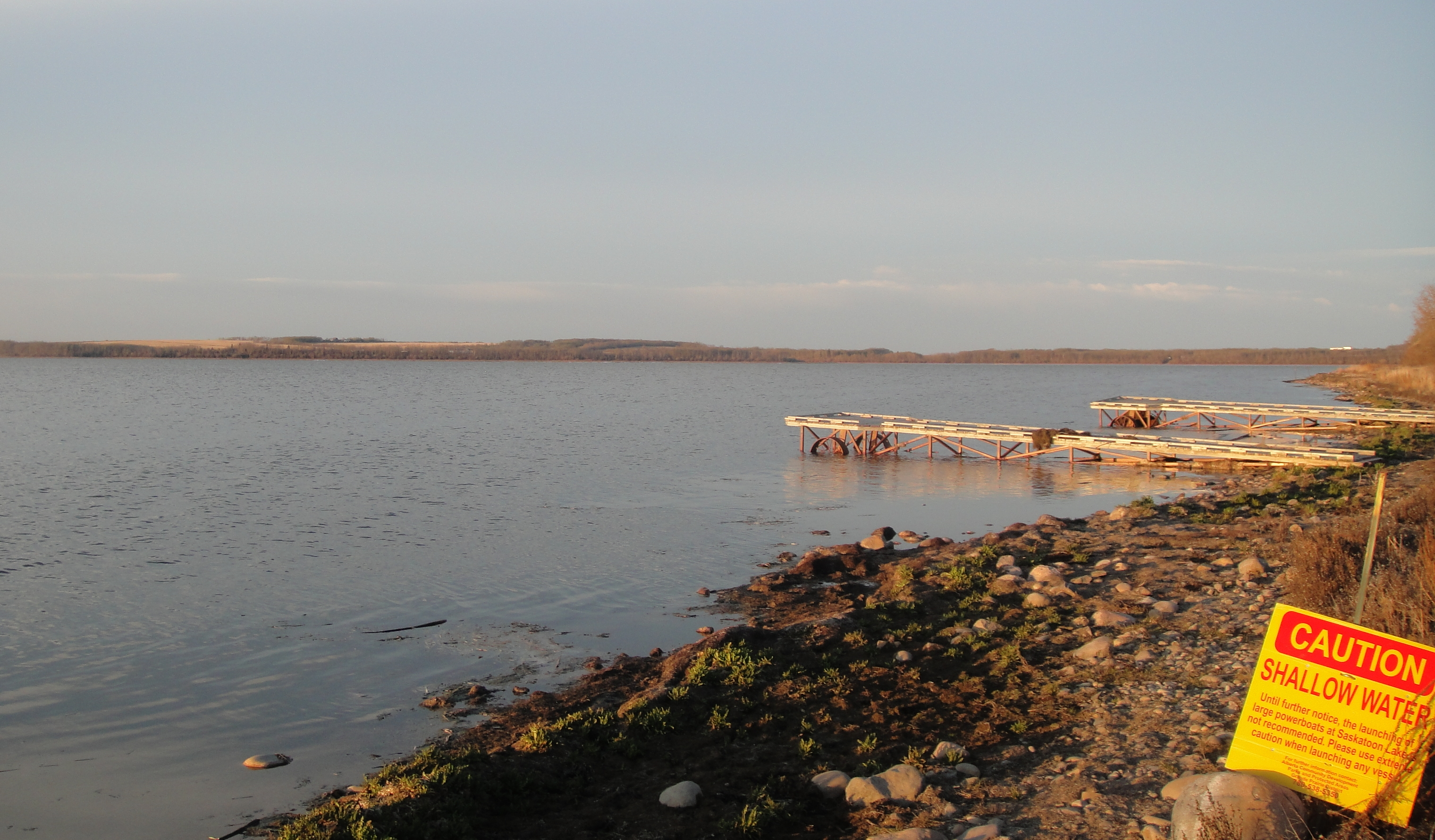 Boat landing docks in Saskatoon Island Provincial Park, Alberta, Canada